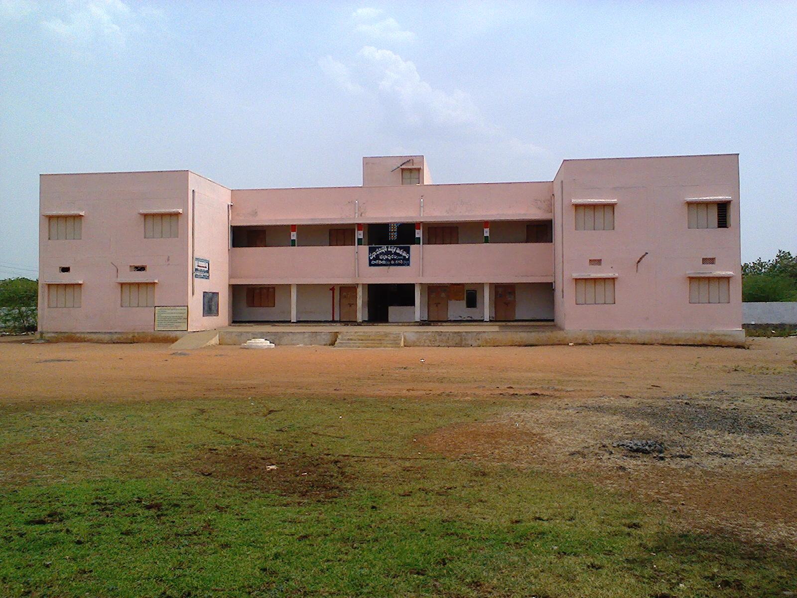 జిల్లా పరిషత్ ఉన్నత పాఠశాల